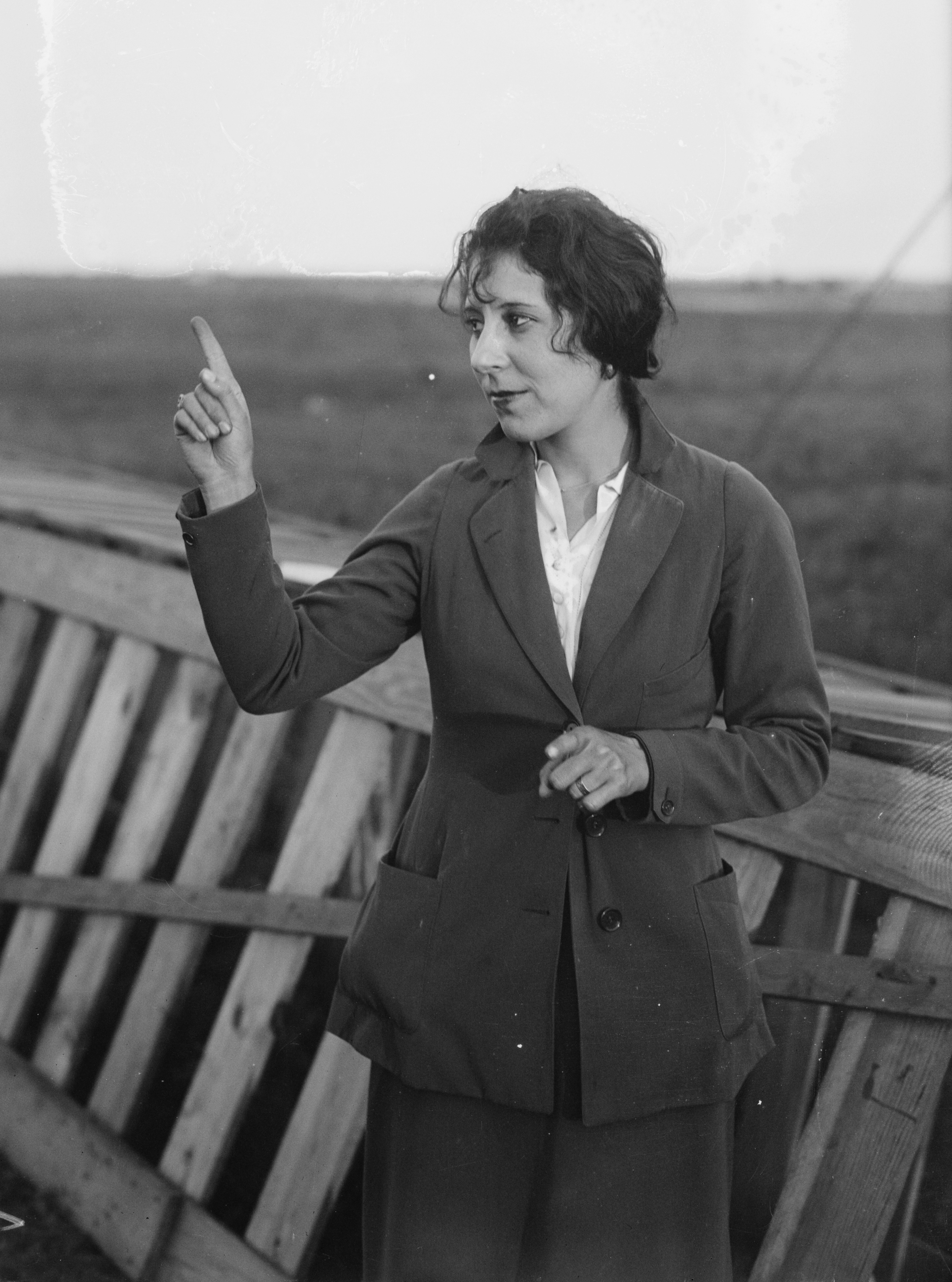 Dorothy Rice Sims in 1916